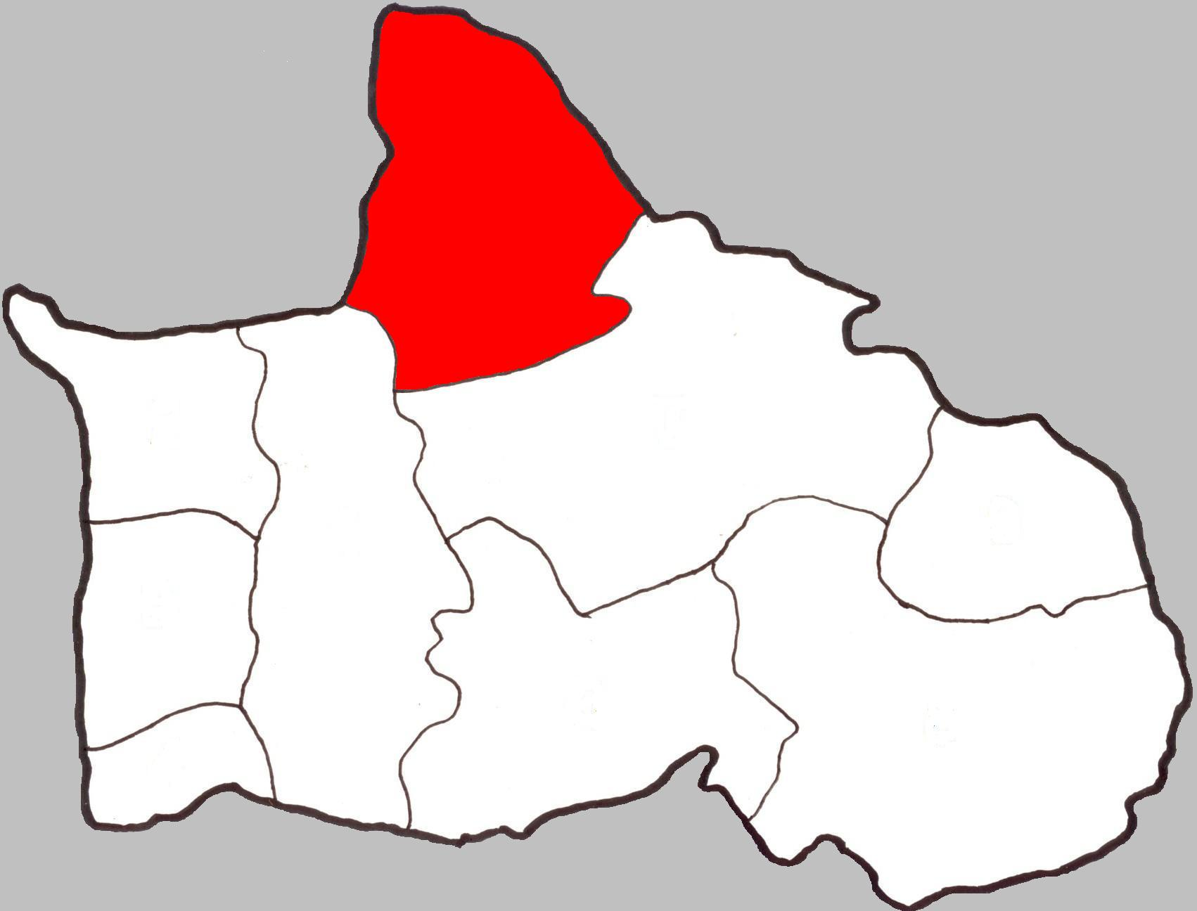 Map of Tambon Tha Than, Bang Krathum District, Phitsanulok, Thailand